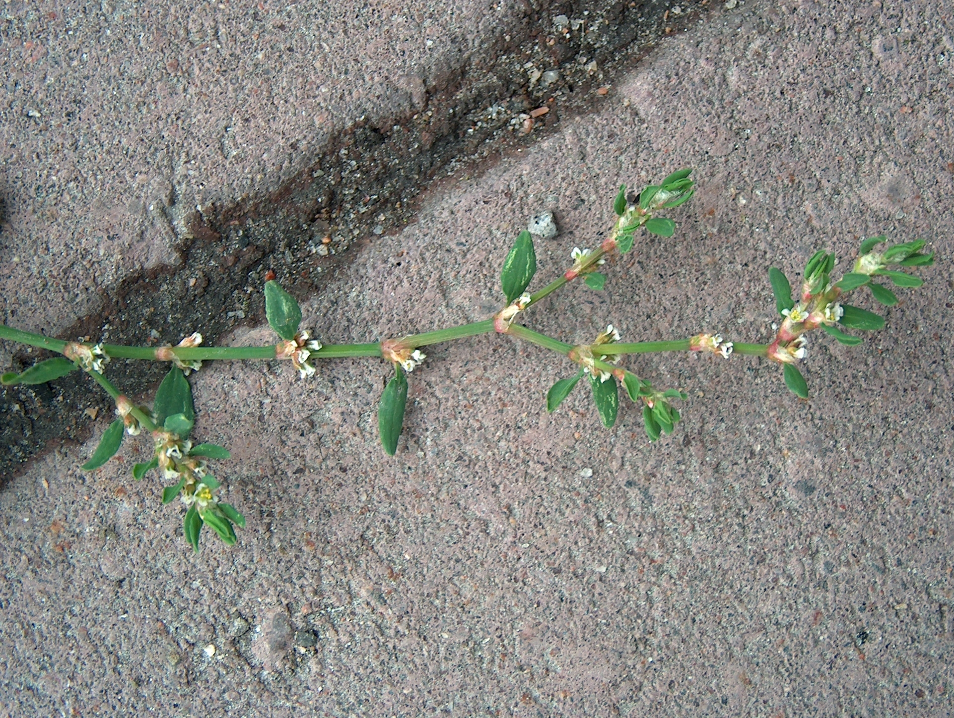 Polygonum aviculare, Common Knotgrass - Helsinki, Finland